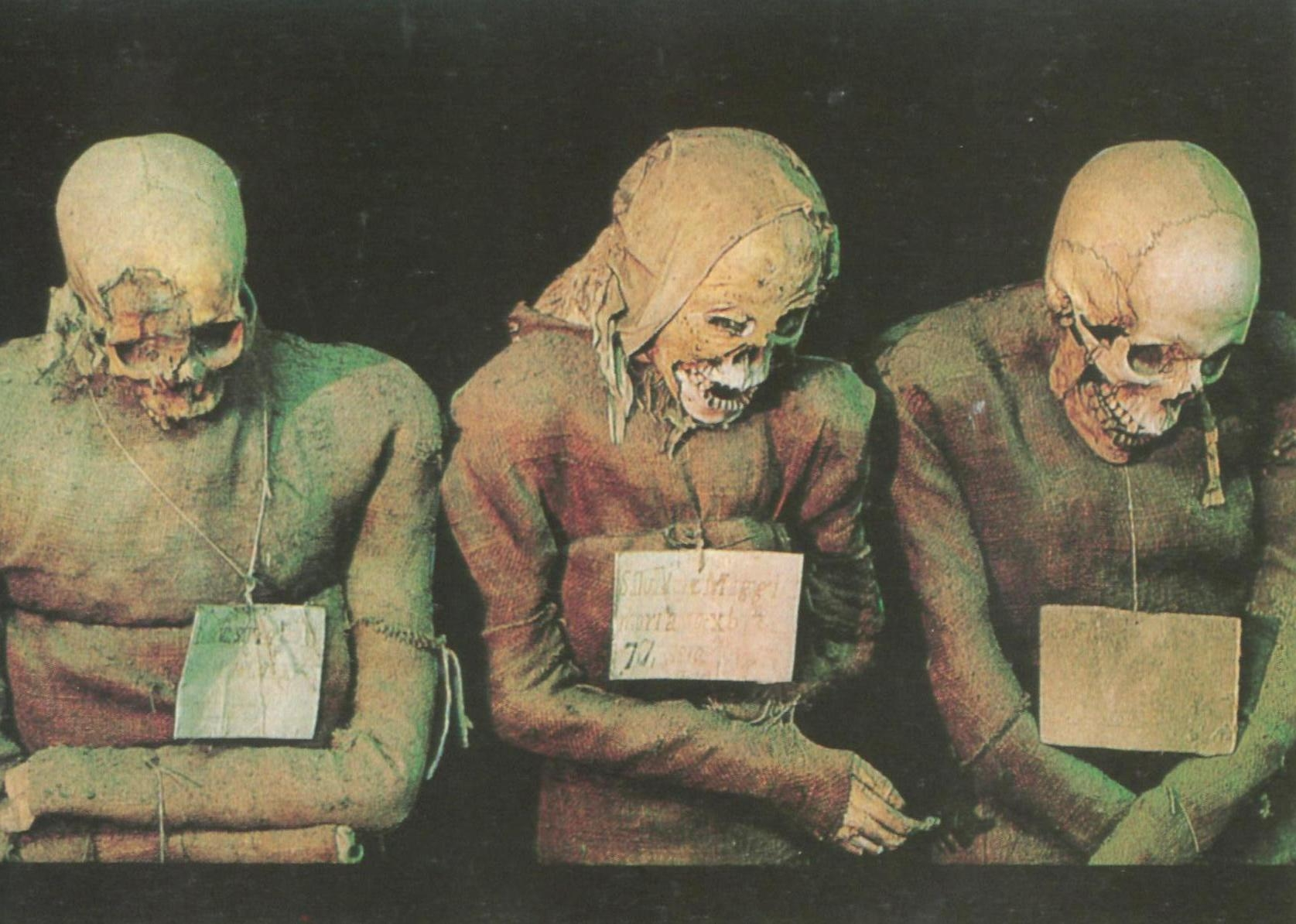 Monks' Corridor in Capuchins' Catacombs